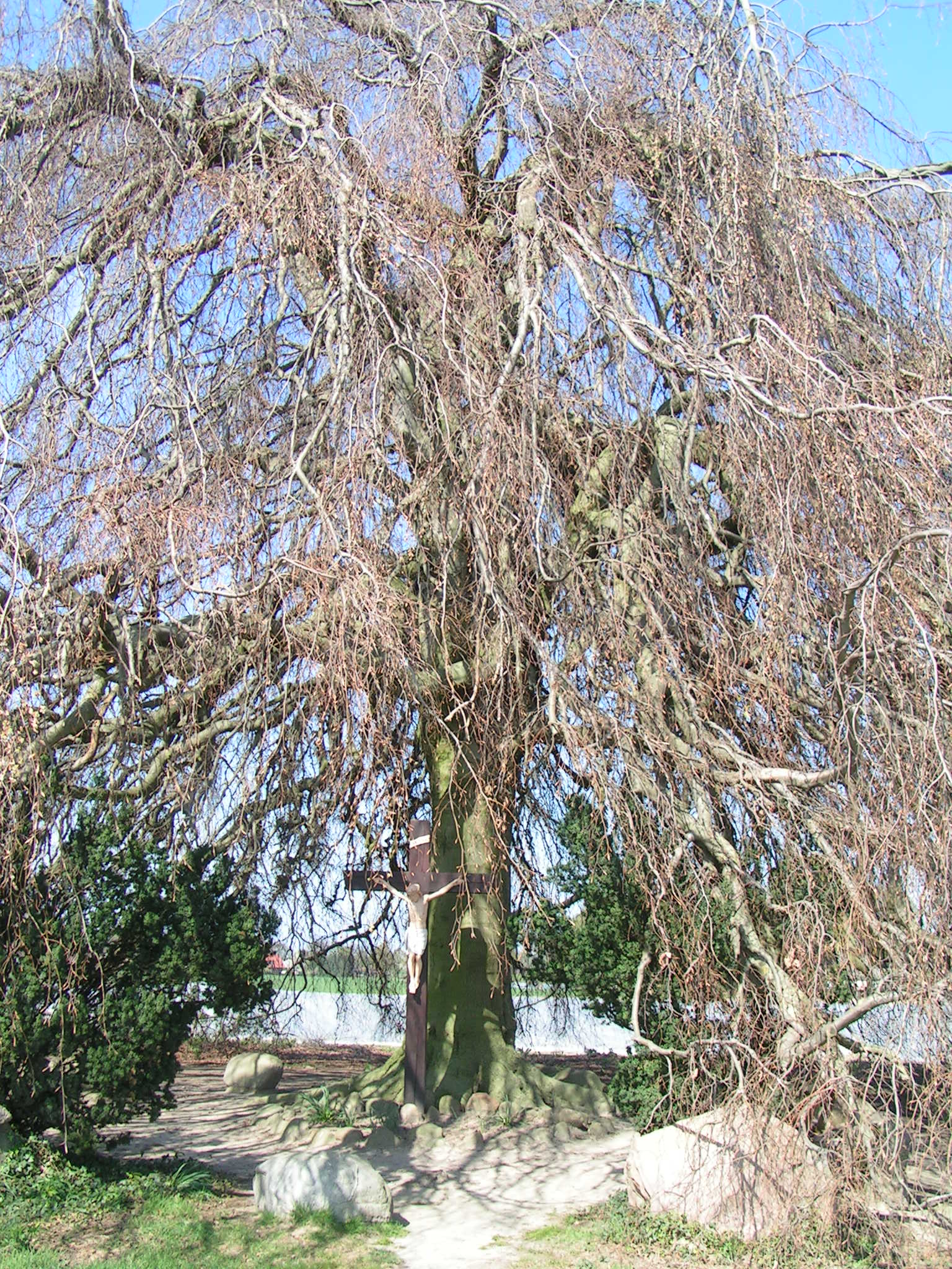 Fagus sylvatica 'Pendula' (beech tree) at the "Reuterweg" (medieval road) in Hagstedt, Lower Saxony; beneath a wayside cross